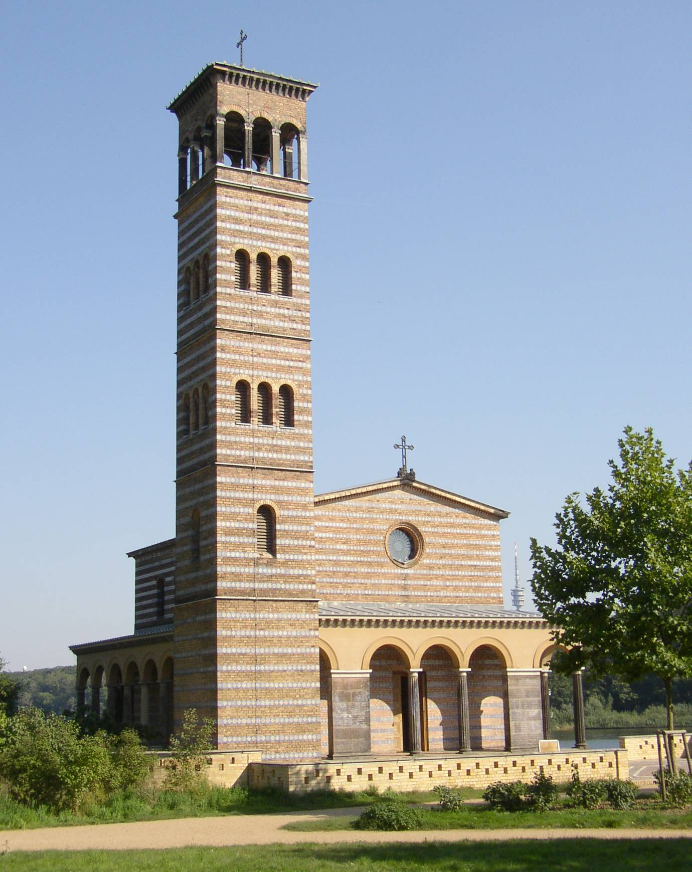 Church of the Redeemer in Potsdam-Sacrow in Brandenburg, Germany